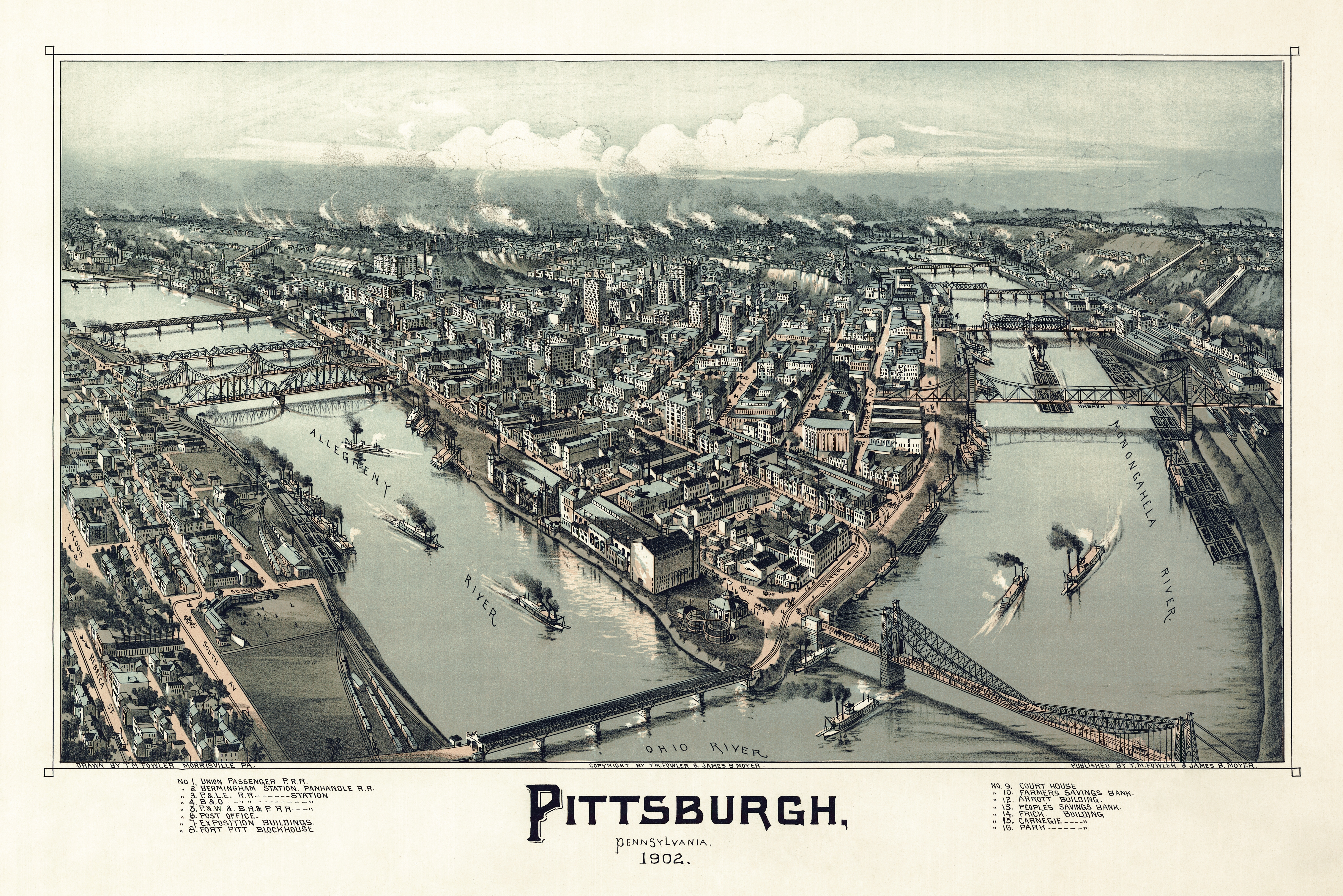 Three colour (blue, yellow-orange, black) lithographic print showing Pittsburgh in 1902.